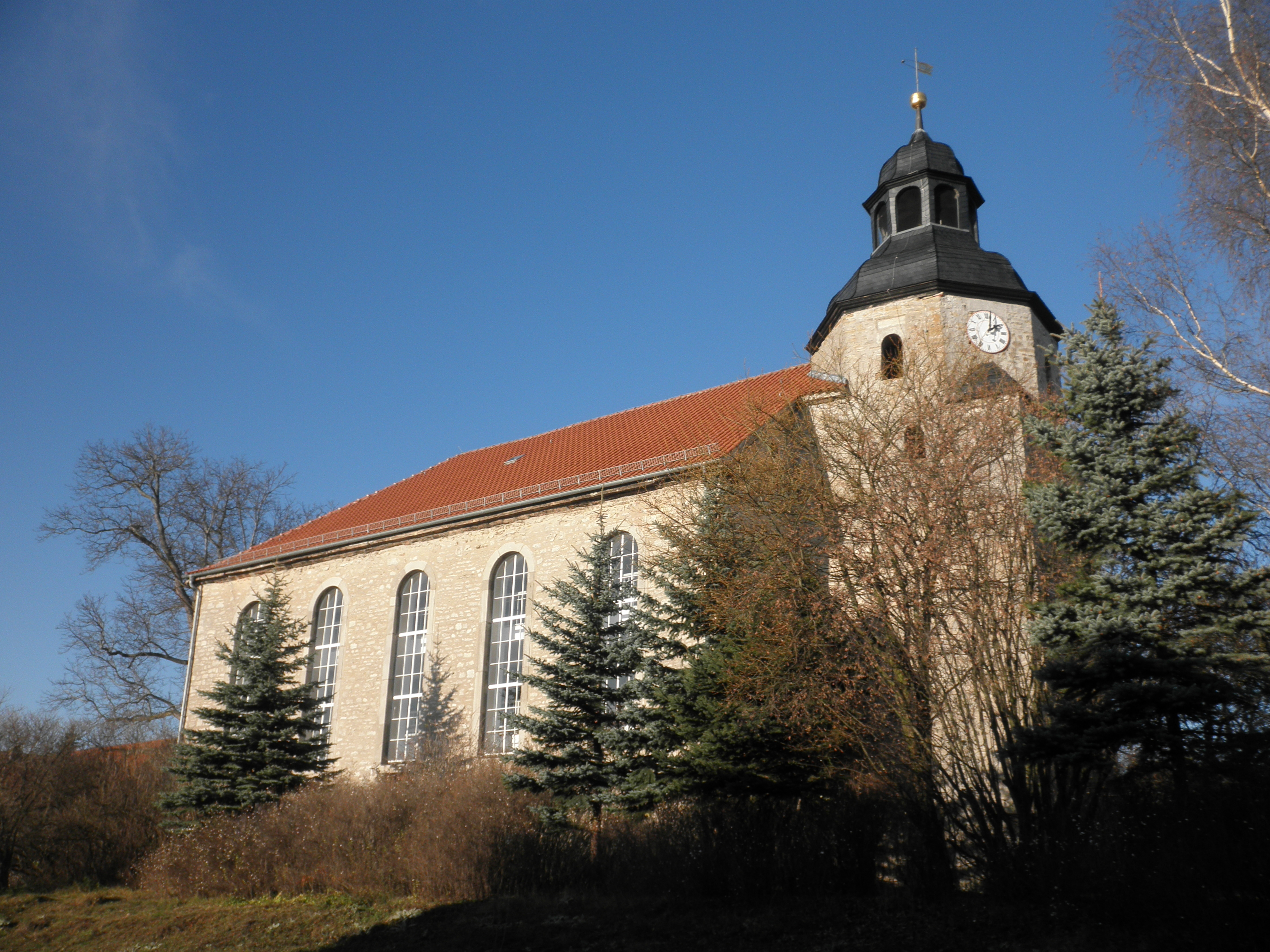 Church in Urbach (Menteroda) in Thuringia